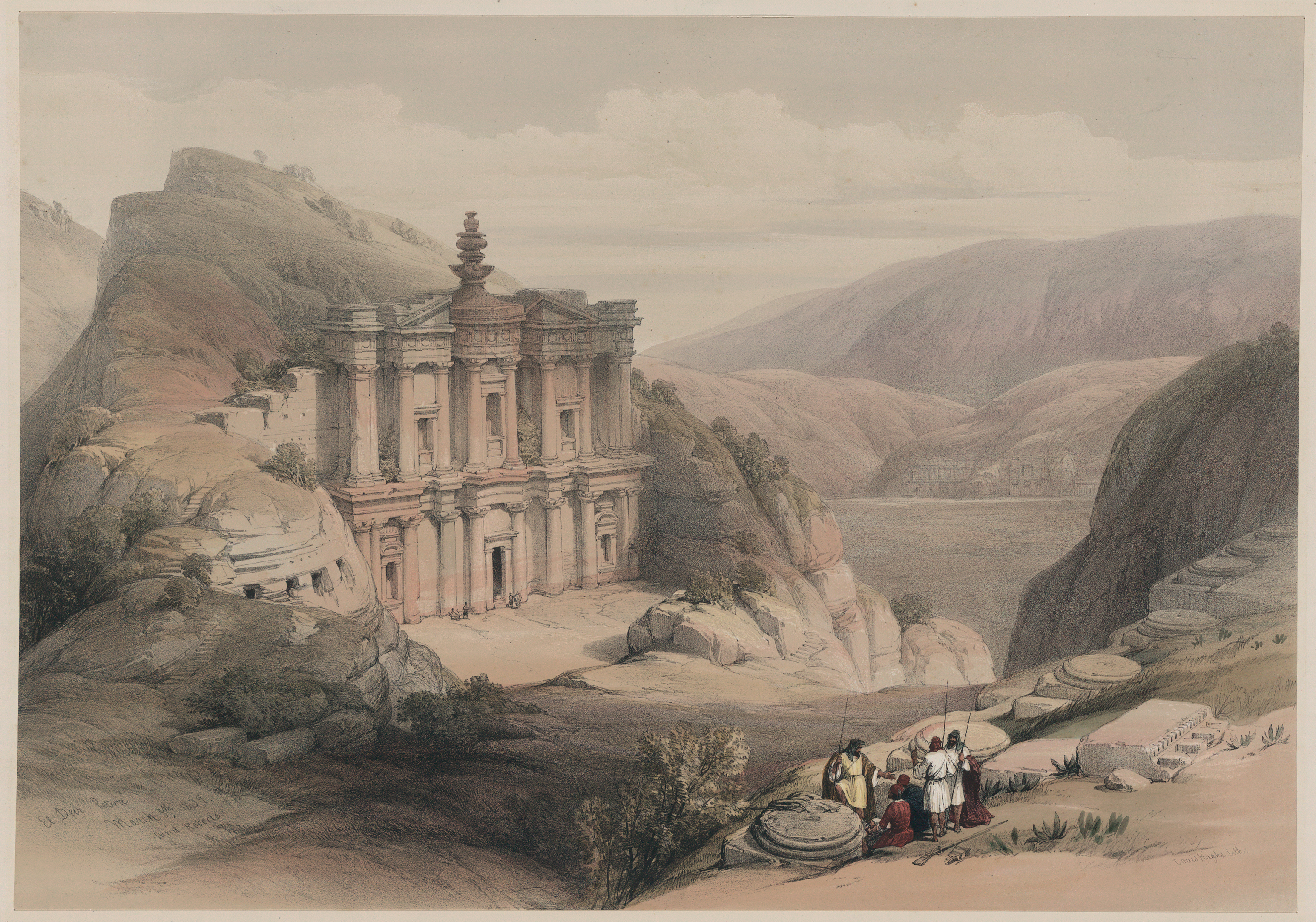 El Deir, Petra, March 8 1839